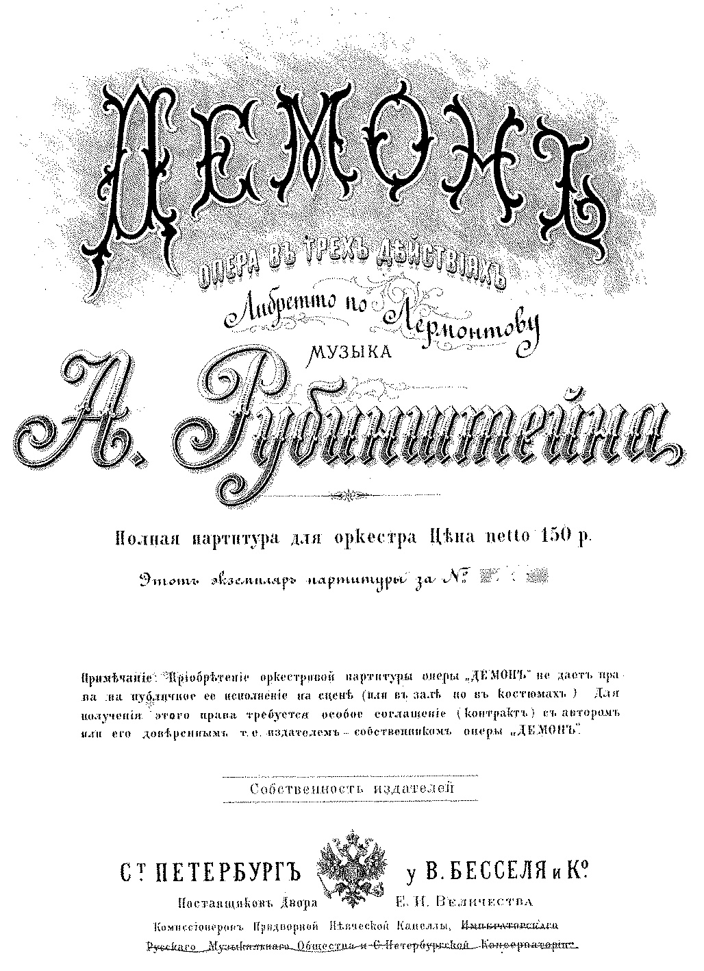 Anton Rubinstein - Demon - title page of the score